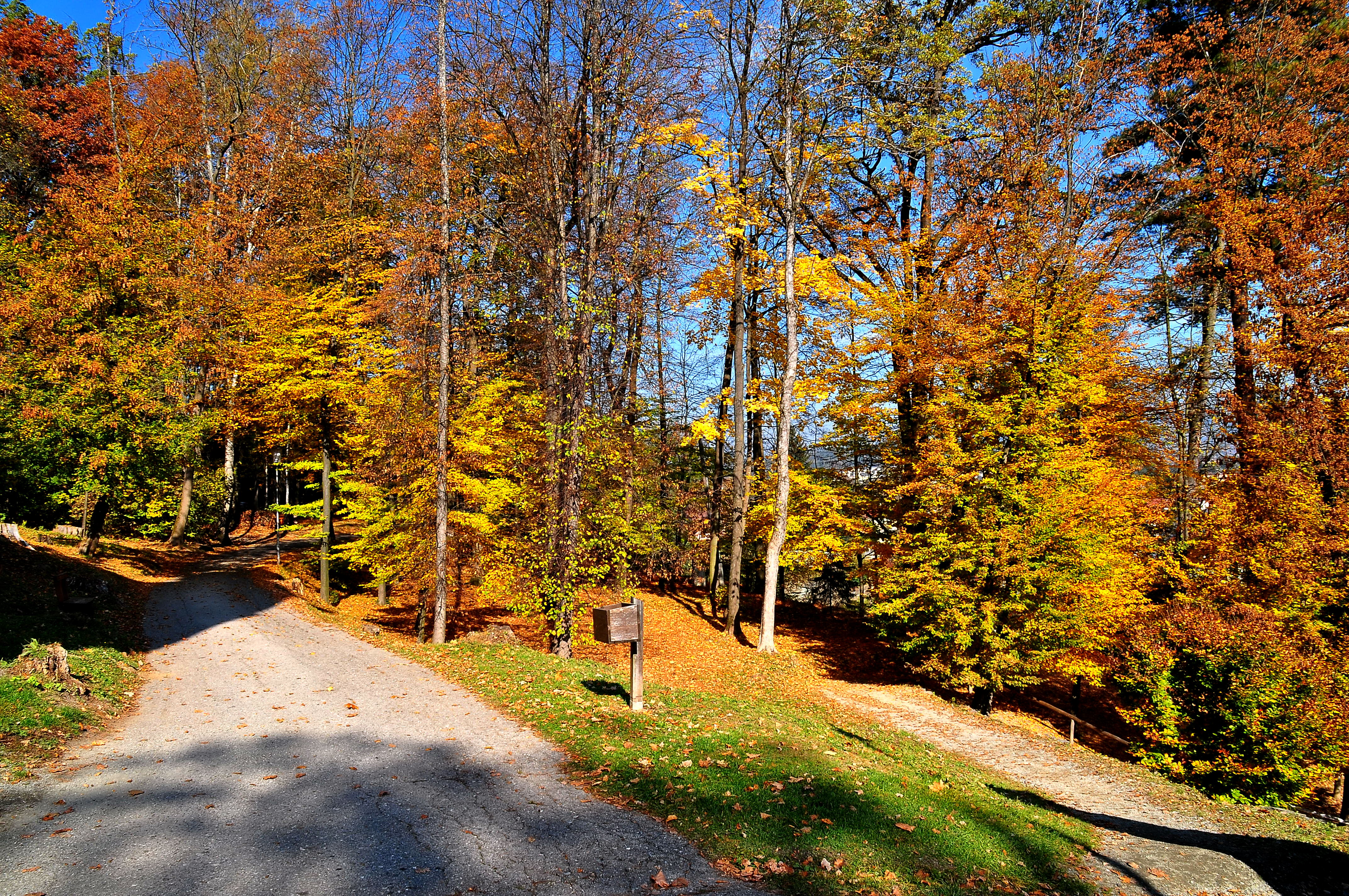 Autumnal beech forest on the Kreuzbergl, north east of the Kreuzbergl church, 8th district "Villacher Vorstadt" of Klagenfurt on the Lake Woerth, Carinthia, Austria